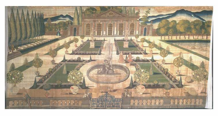 Stoke Edith Wall Hanging, 1710-1720 V&A Museum no. T.568-1996 Techniques - Linen canvas, embroidered with silk and wool, with some details in appliqué Place - England Dimensions - Height 316 cm (left edge), Height 318 cm (right edge), Width 667 cm (maximum)